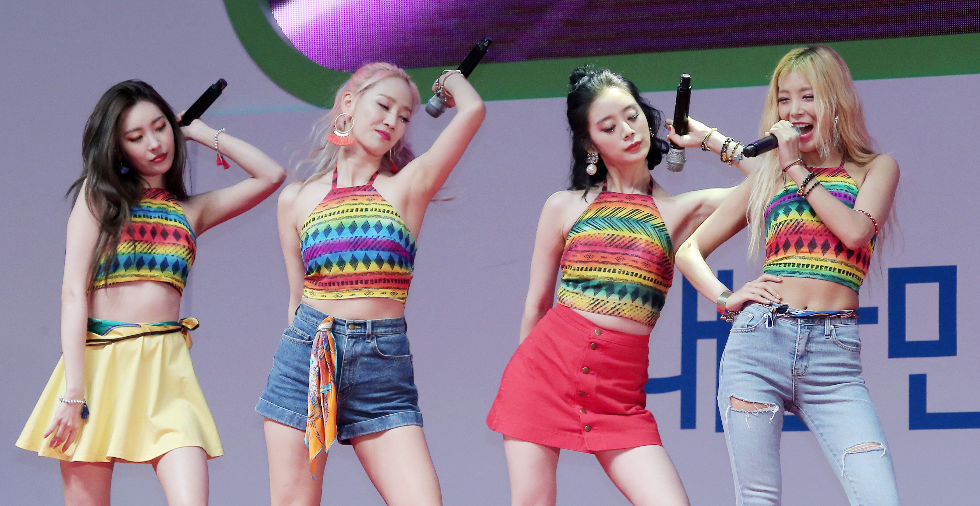 Pop sensation Wonder Girls performs during the July 19 team launch, encouraging Team Korea to do its best at the Rio 2016 Olympic Games.